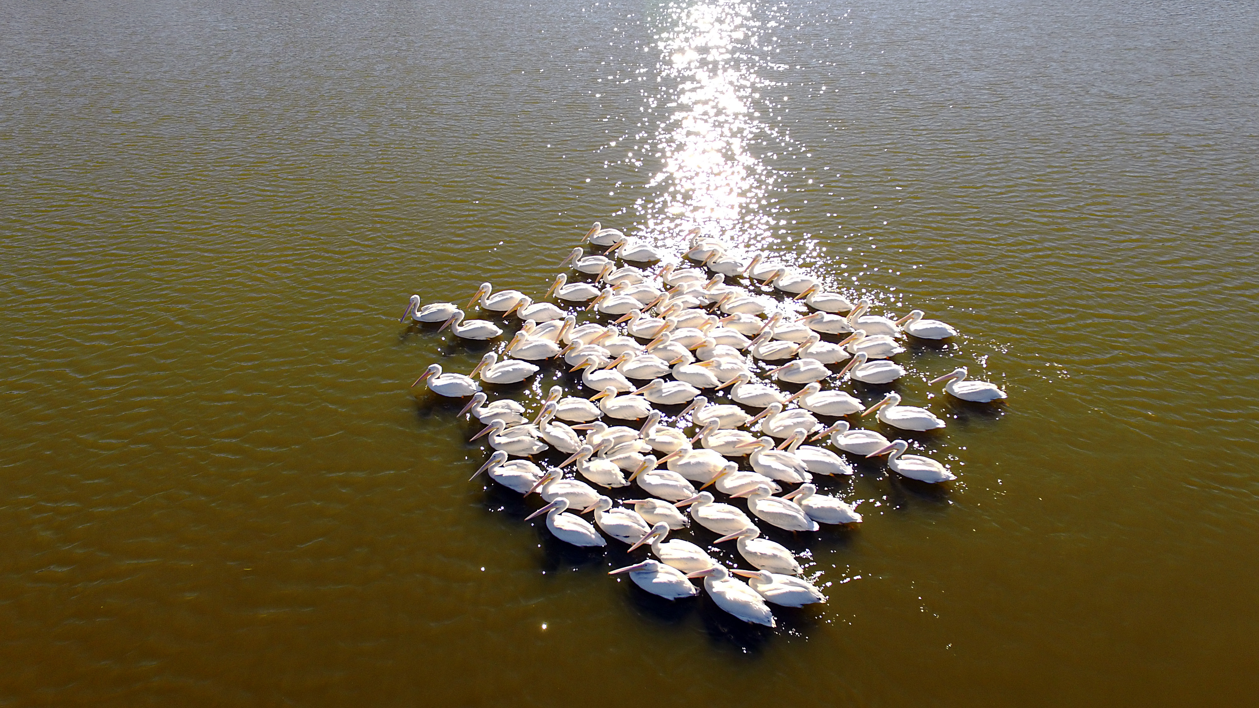 Flock of American White Pelicans on the Illinois River near Jonesville, Illinois